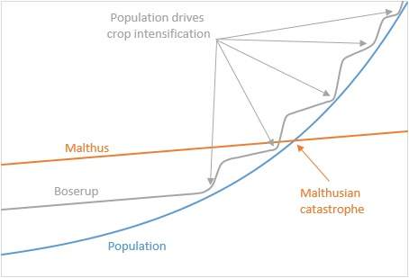 Population growth and food production according to Boserup and Malthus